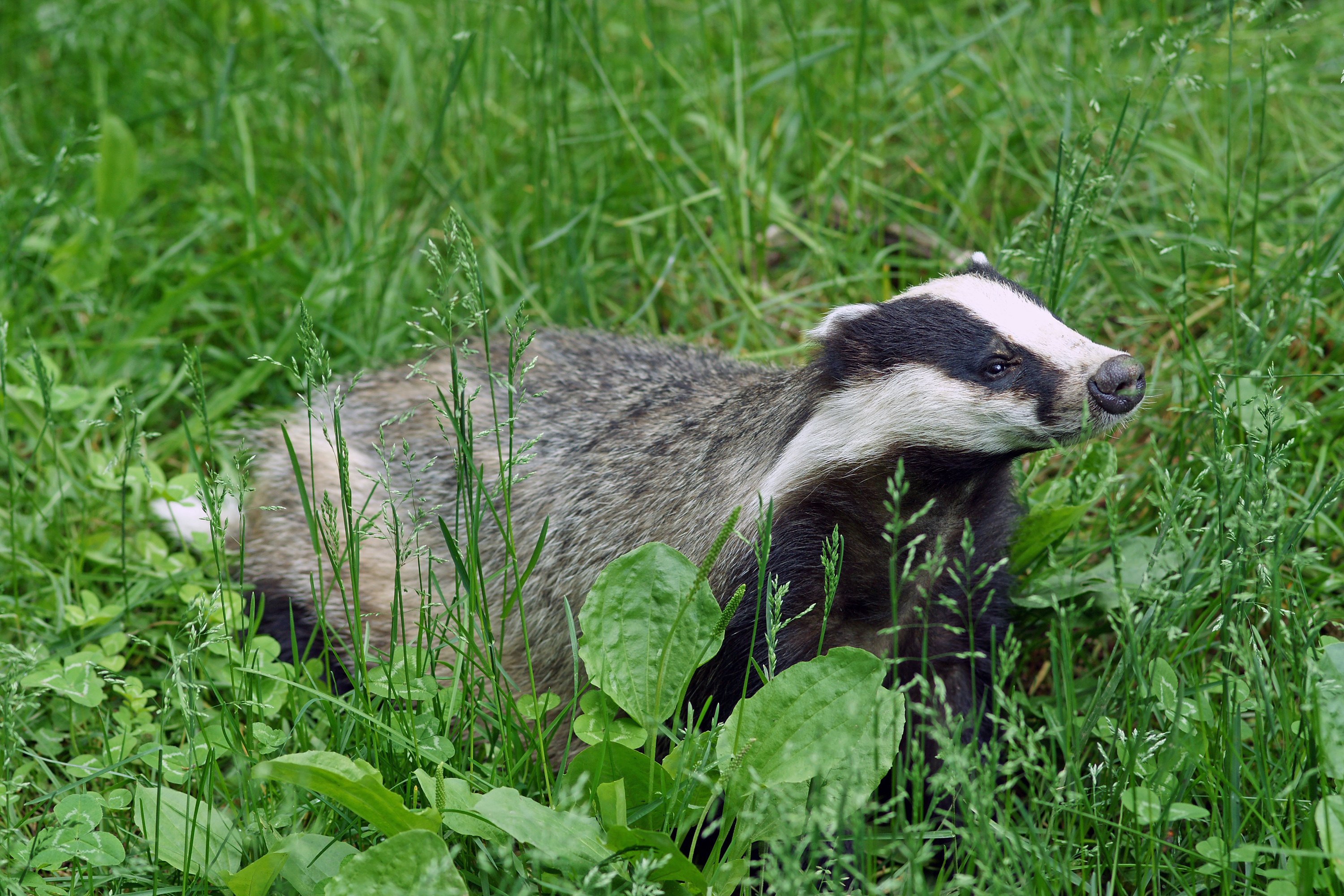 European badger (Meles meles) in Ähtäri Zoo.